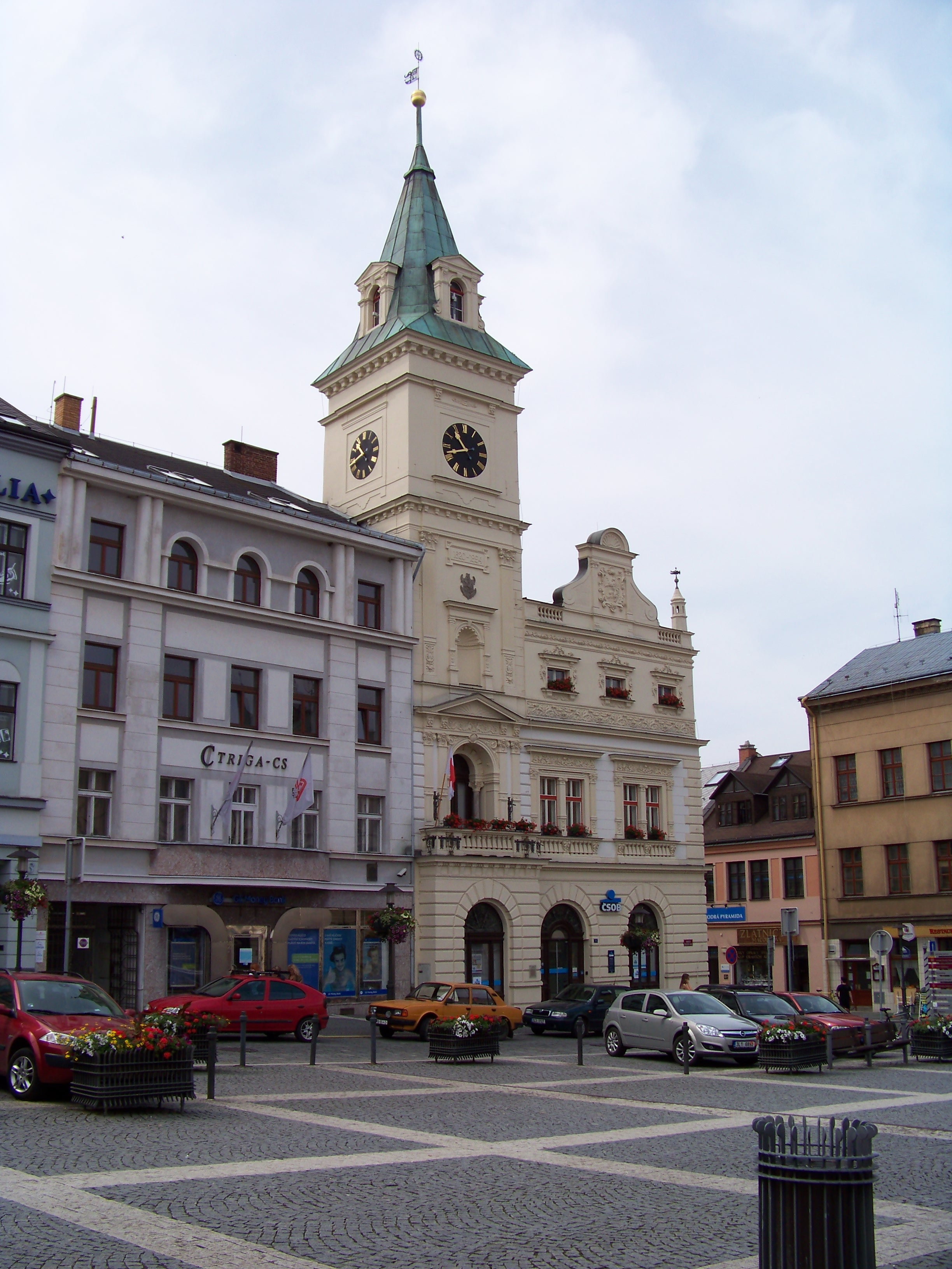 Turnov, Liberec Region, the Czech Republic. The town hall.